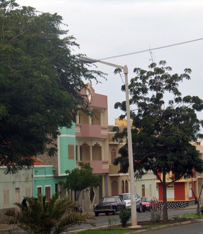 the street and home of Cesária Évora